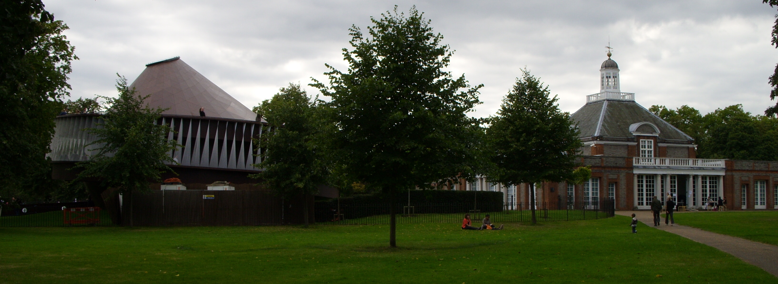 Serpentine Gallery, London, with 2007 temporary pavilion by artist Olafur Eliasson and Kjetil Thorsen, partner in the Norwegian architectural practice Snøhetta.